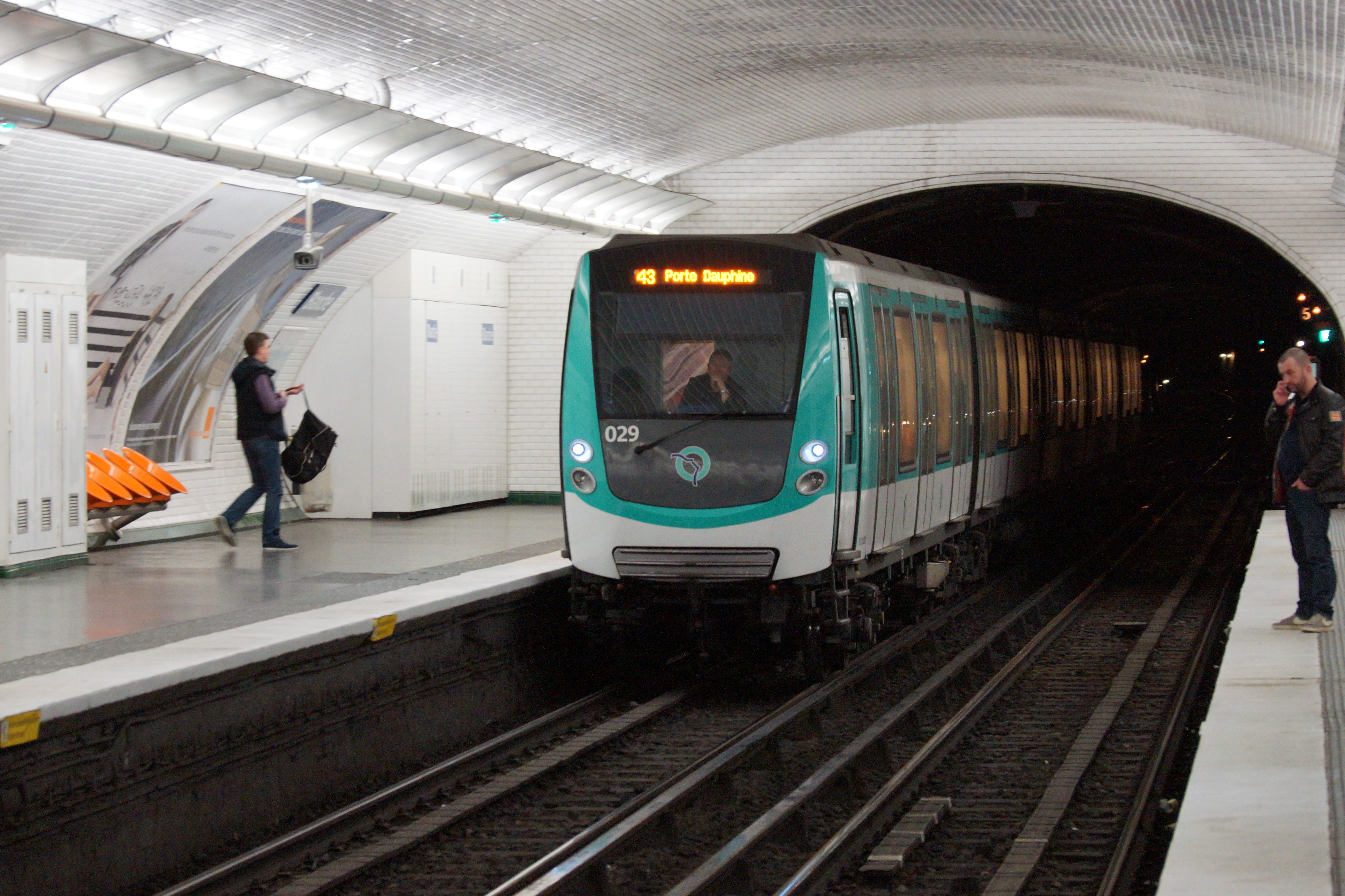 Blanche metro station, Paris.